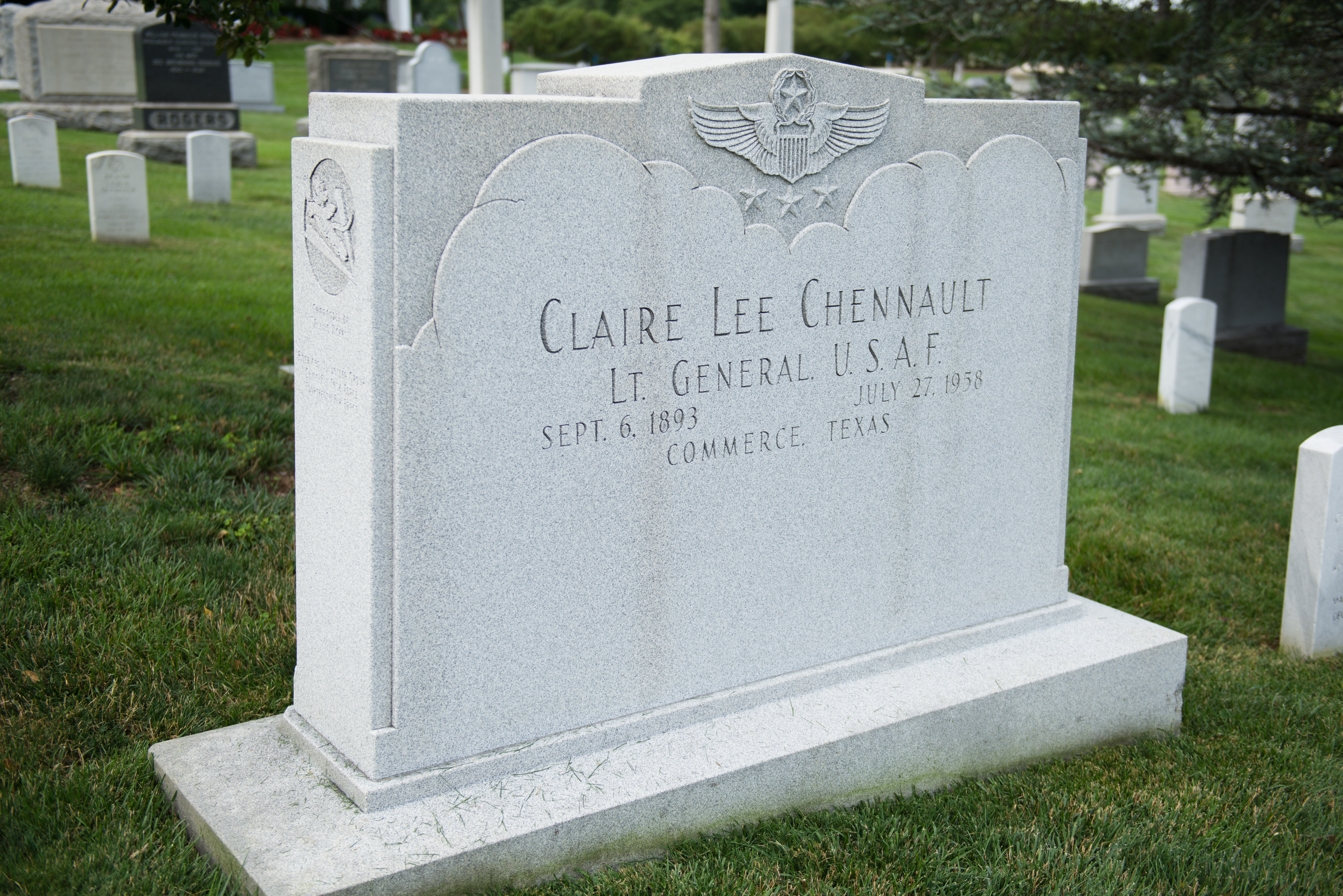 Lt. Gen. Claire Lee Chennault, Sept. 6, 1893-July 27, 1958, was an American military aviator. A contentious officer, he was a fierce advocate of “pursuit” or fighter-interceptor aircraft during the 1930’s when the U.S. Army Air Corps was focused primarily on high-altitude bombardment. Chennault retired in 1937, went to work as an aviation trainer and adviser in China, and commanded the “Flying Tigers” during World War II, both the volunteer group and the uniformed units that replaced it in 1942. (U.S. Army photo by Rachel Larue/released)